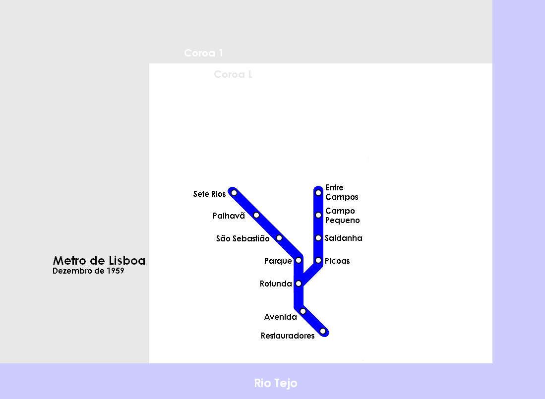 Map of the Lisbon Metro in Dezember 1959